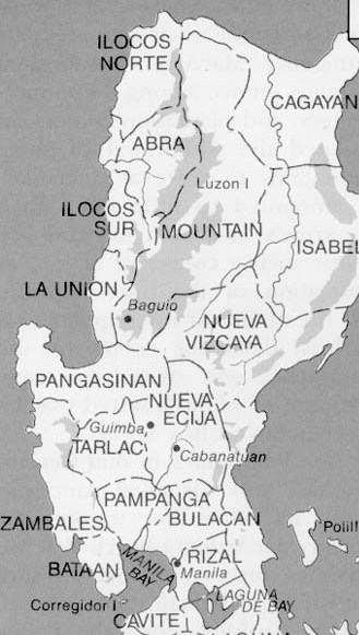 A map taken from a U.S. Army history of World War II.